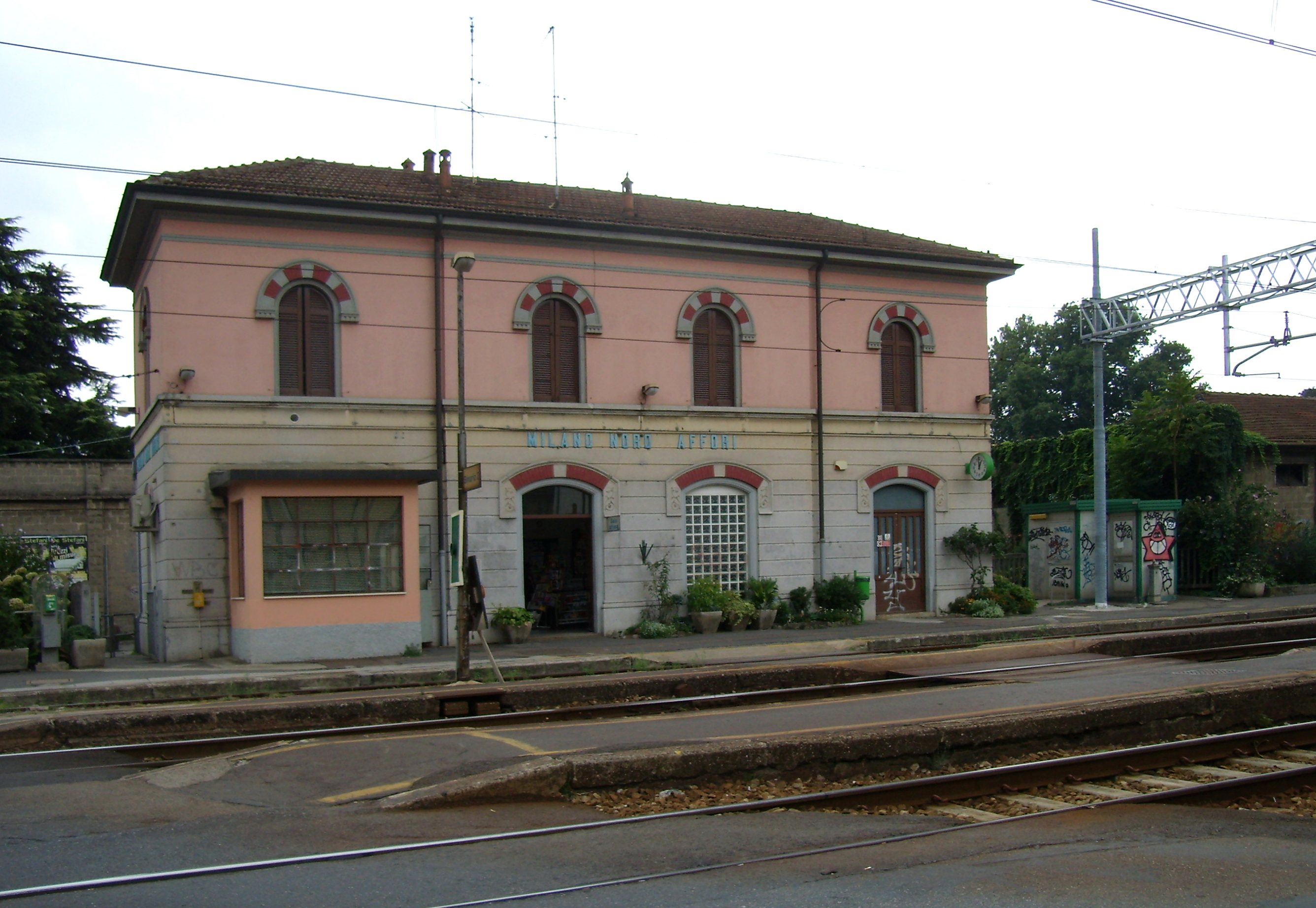 Milano Affori railway station